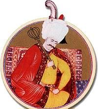 Selim I portrait from Topkapı palace